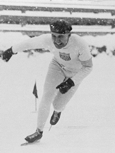 John ONeil Farreil of the USA in action during the 500 metres Speedskating event at the 1928 Winter Olympic Games in St Moritz, Switzerland. Farreil was awarded the bronze medal even though the event was abandoned in the fifth heat due to thawing